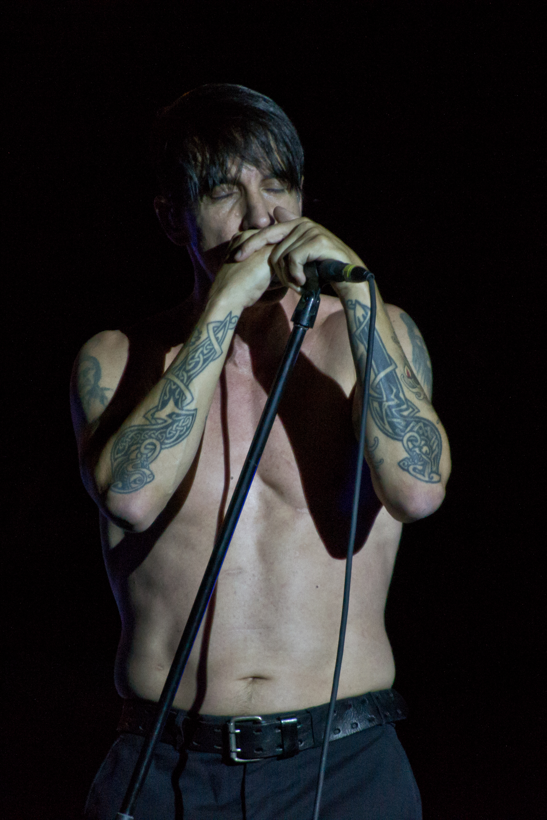 Red Hot Chili Peppers in Rock in Rio Madrid 2012.